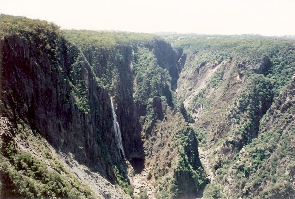 This photograph was taken on the 25 February 1995.